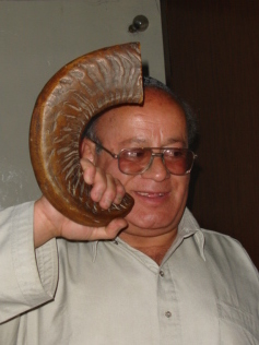 Zablon Simintov (born 1959) is an Afghanistani carpet trader and restaurateur who is believed to be the last remaining Jew living in Afghanistan. He is also the caretaker of the only synagogue in Kabul.